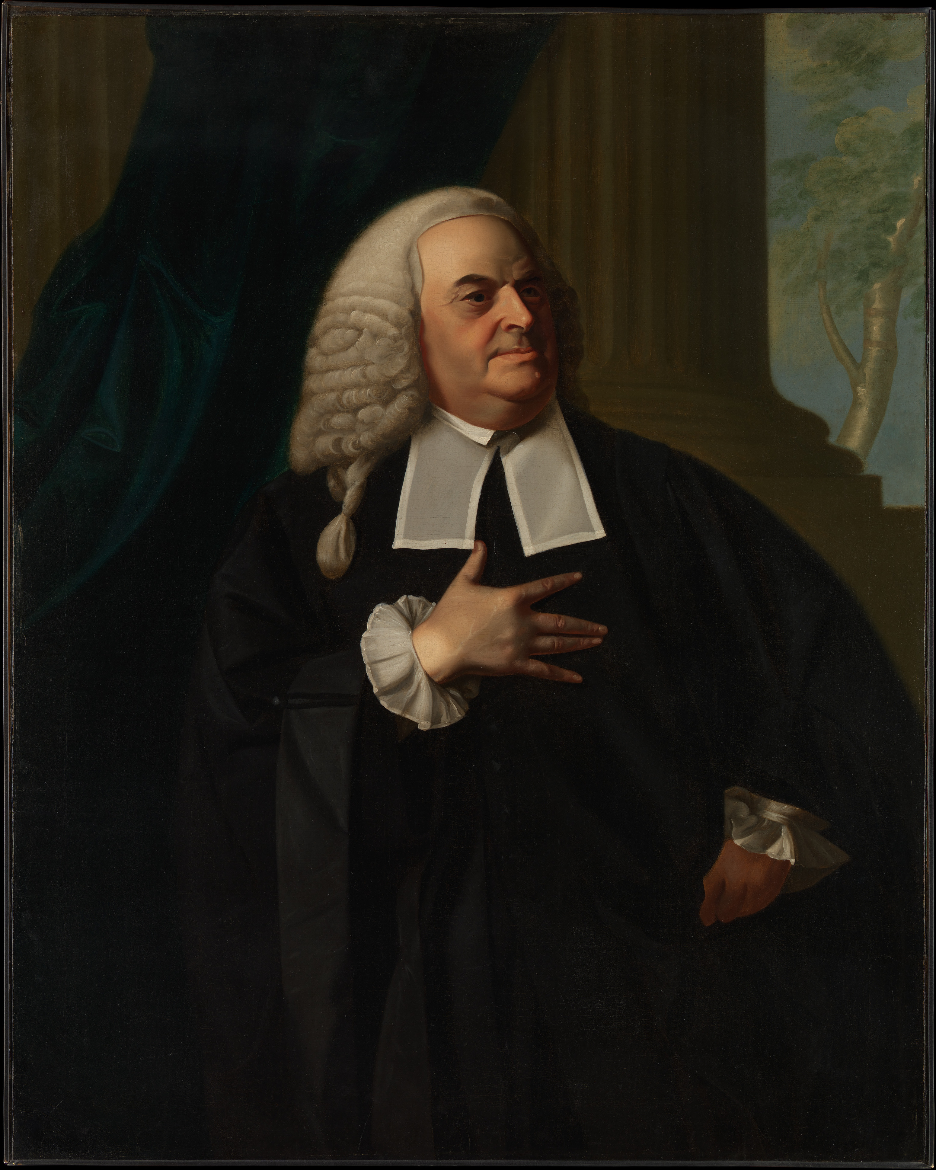 Richard Dana Artist: John Singleton Copley (American, Boston, Massachusetts 1738–1815 London) Date: ca. 1770 Medium: Oil on canvas Dimensions: 40 x 50 in. (101.6 x 127 cm) Classification: Paintings Credit Line: Purchase, Brooke Russell Astor Bequest and Ronald S. Kane Bequest, in honor of Berry B. Tracy, 2014 Richard Dana (1700–1772) was a justice of the province of Massachusetts and a leading figure of the Boston bar. During the early stages of the Revolution, the city depended on his sage legal advice. He was a member of the committee that investigated the Boston Massacre in 1770, at about the same time he posed for Copley. As a bold enhancement of the powerful portrait, Copley selected a carved-and-gilded Rococo frame. The frame is personalized with the Dana family’s coat of arms: three stags separated by a chevron, with a fox at the crest and Cavendo tutus (“By caution secure”) as the motto.